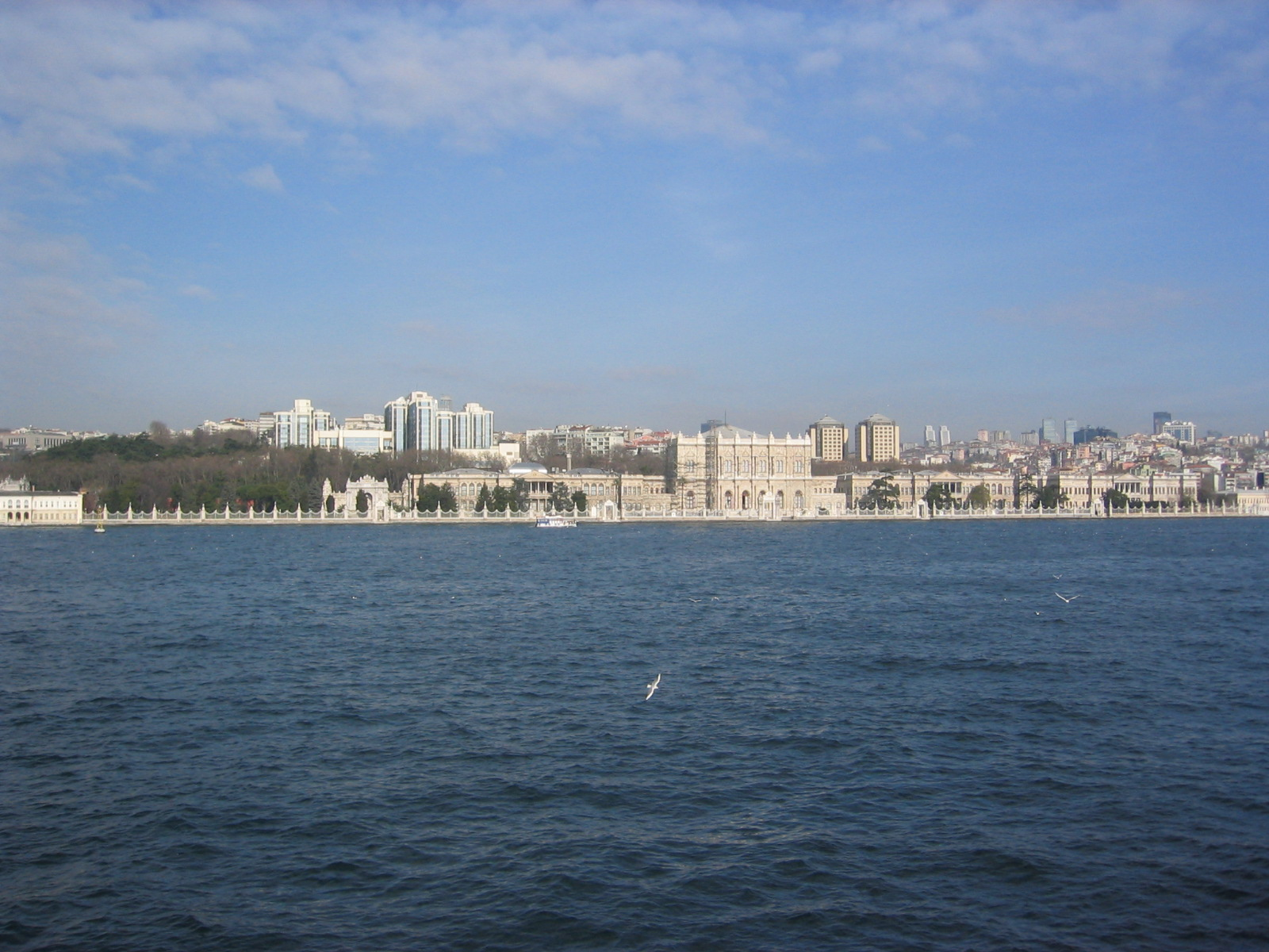 Dolmabahçe Palace in Istanbul, Turkey